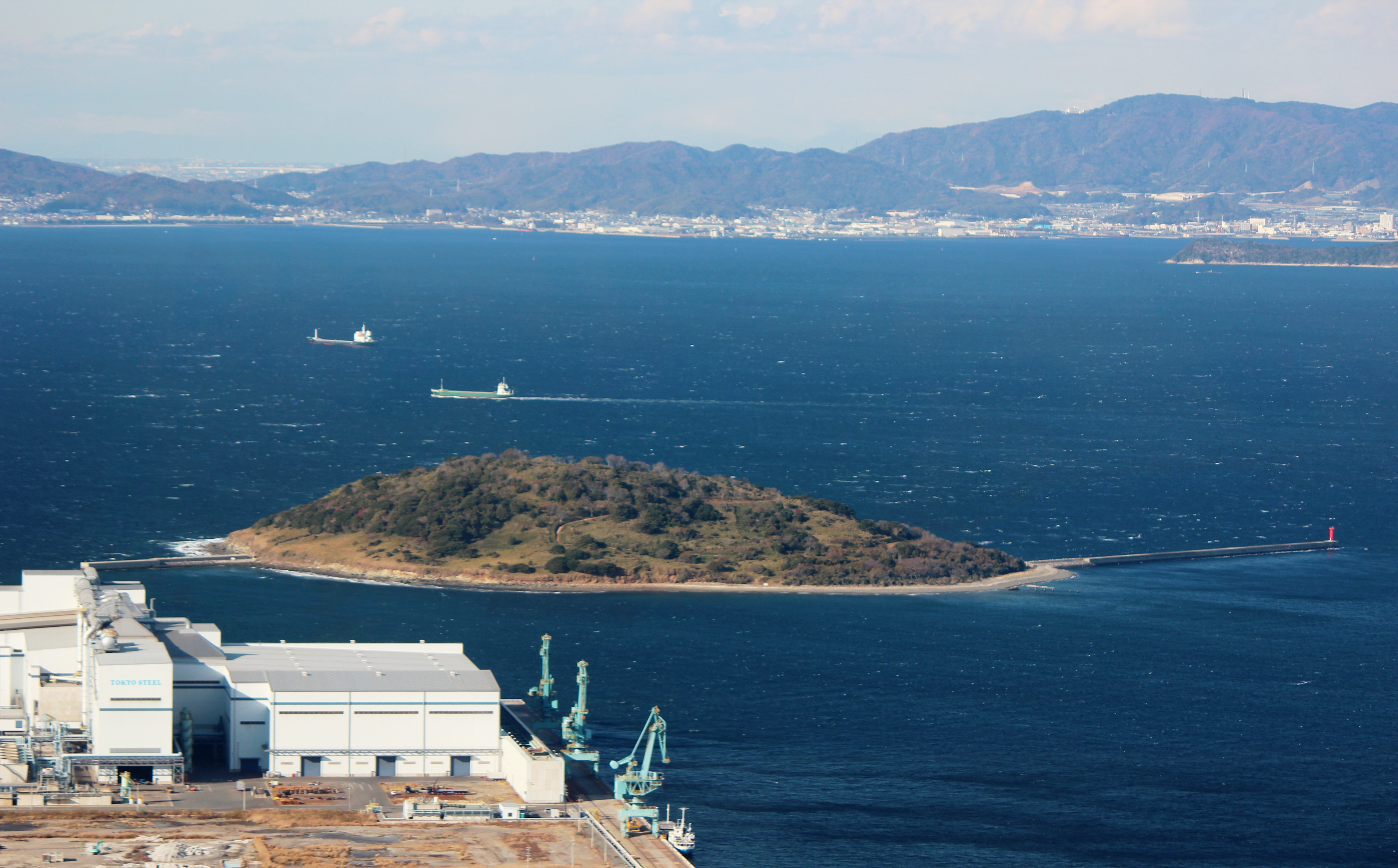 Hime Iland from Mount Zao